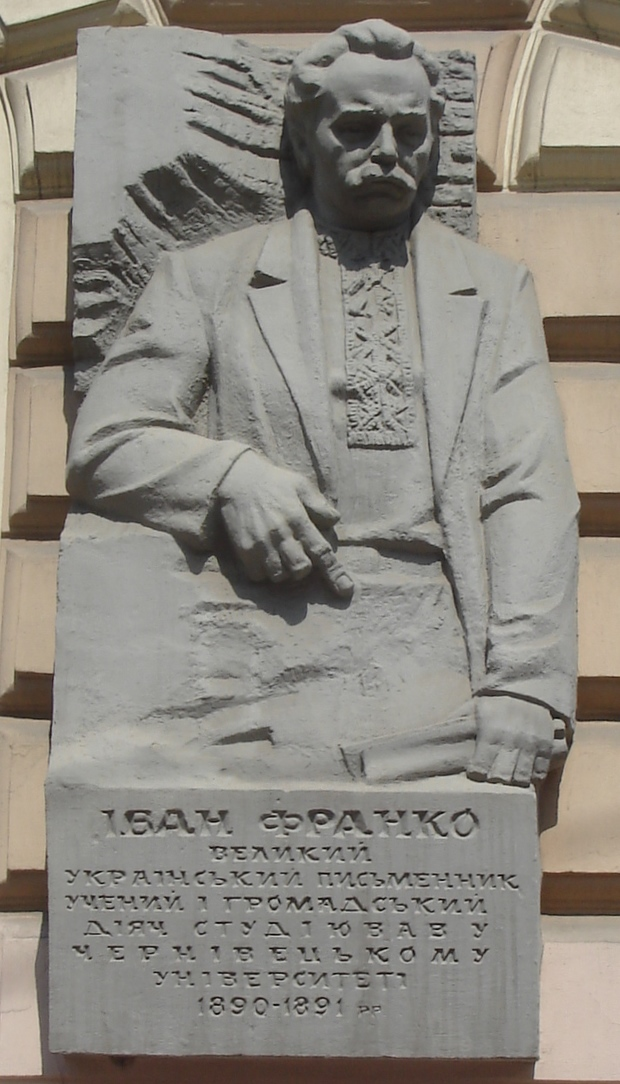 A plaque writer Ivan Franko in one of the buildings of Chernivtsi University, where he studied